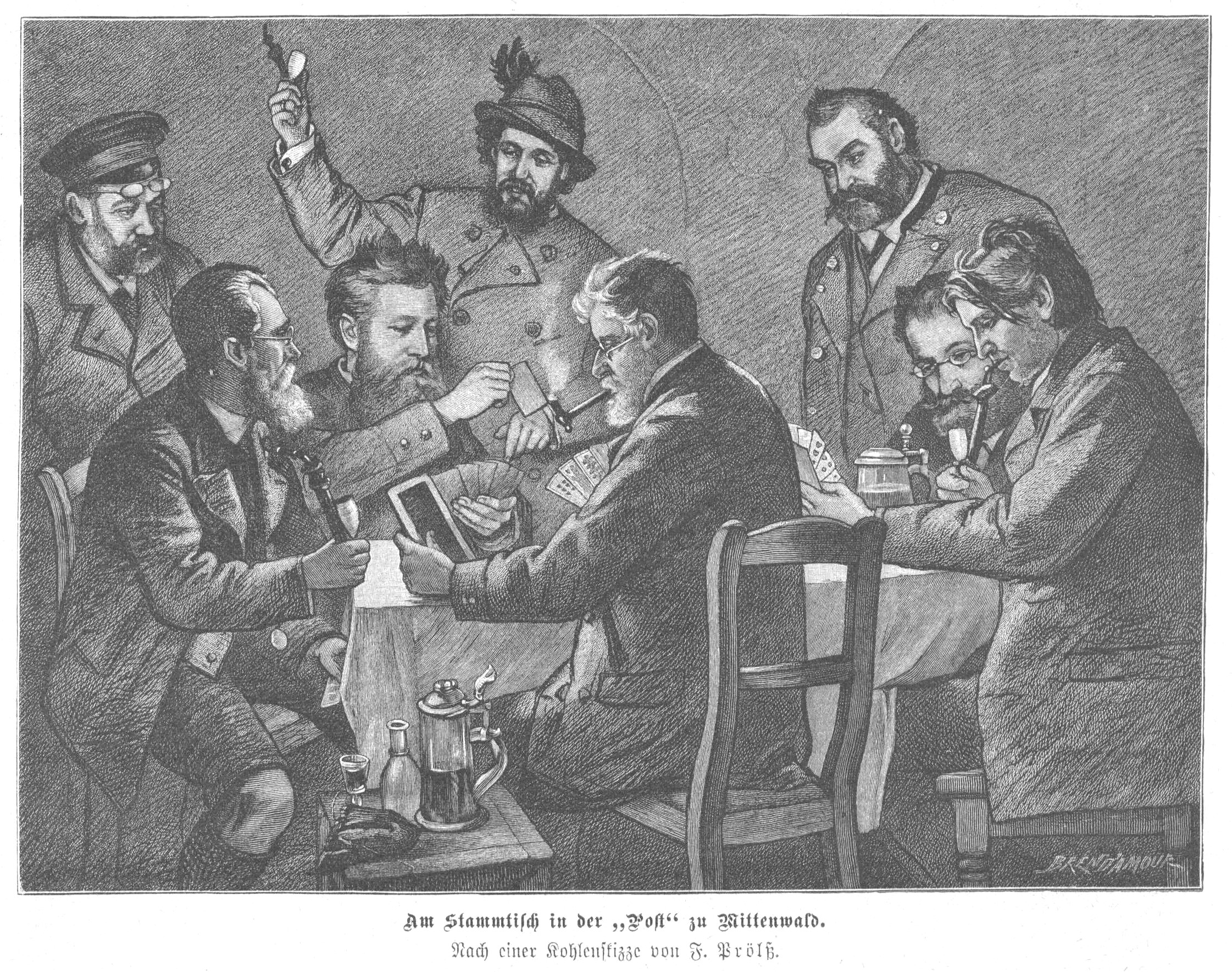 caption: "Am Stammtisch in der „Post“ zu Mittenwald.Nach einer Kohlenskizze von F. Prölß."